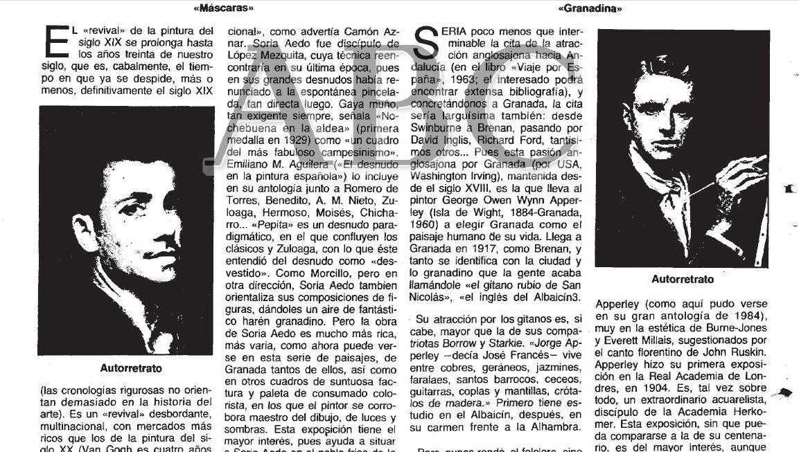 Madrid 1928